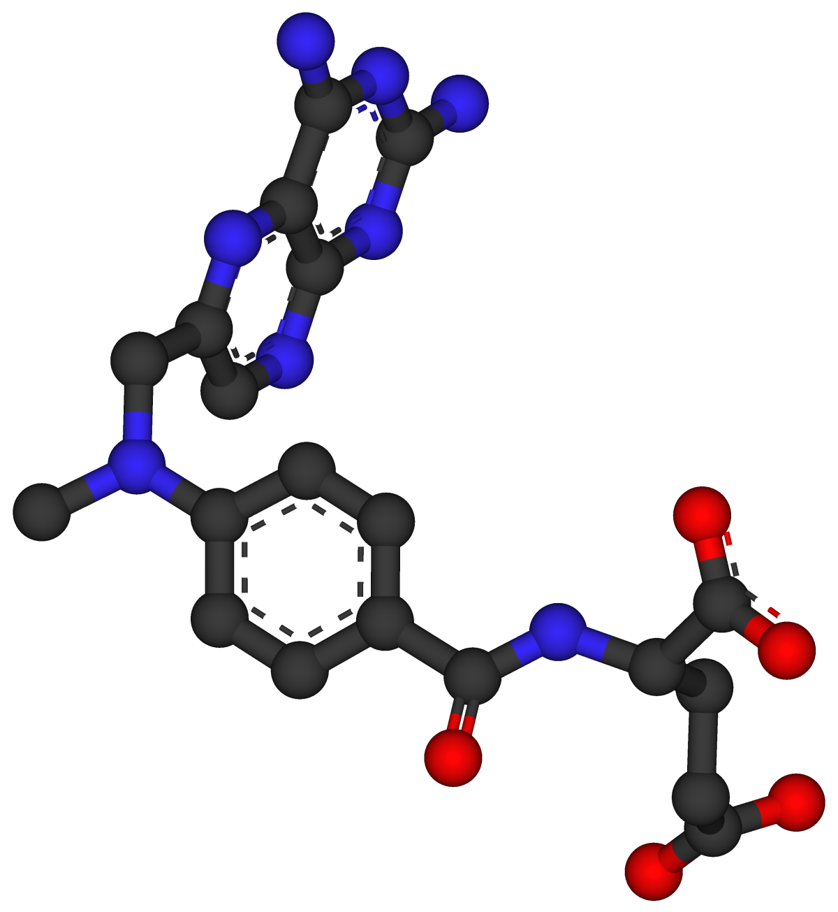 Ball-and-stick model of methotrexate, as bound to human dihydrofolate reductase. Hydrogen atoms omitted for clarity. Created using Accelrys DS Visualizer Pro 1.7 and GIMP. Optimized with OptiPNG.